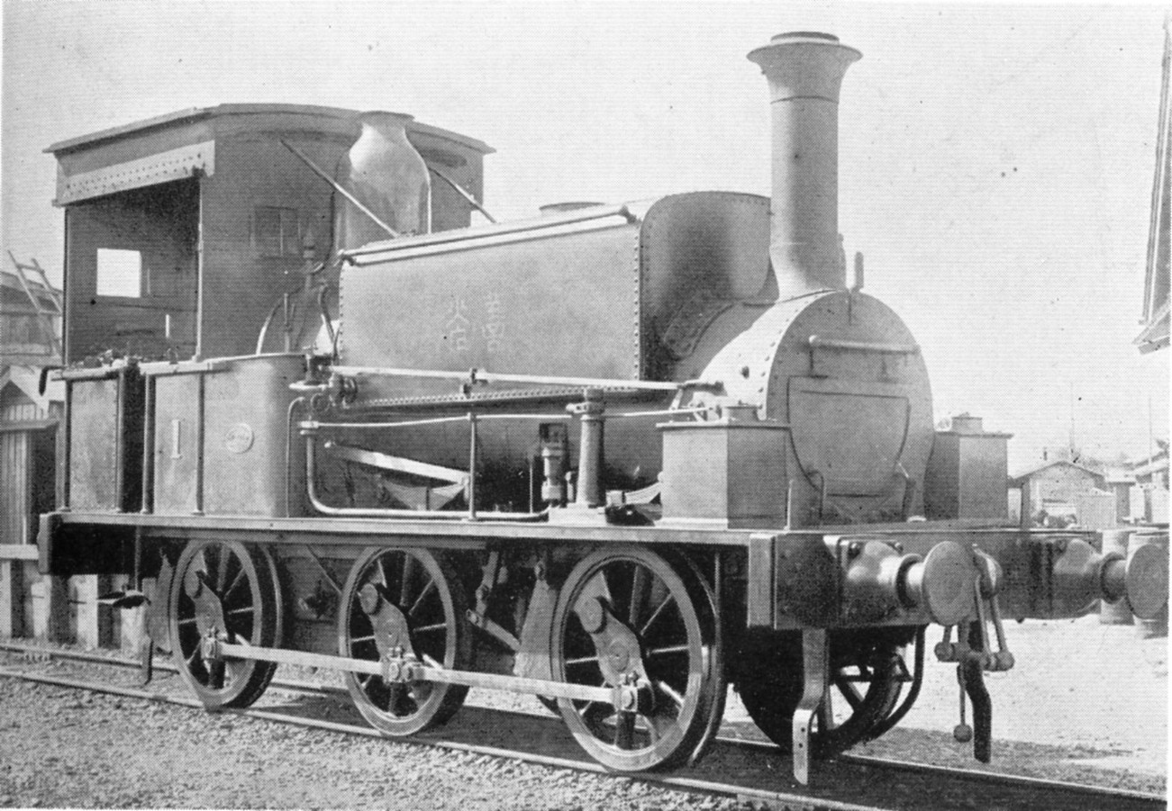 Japan Government Railway type 1290 steam locomotive "Zenko"